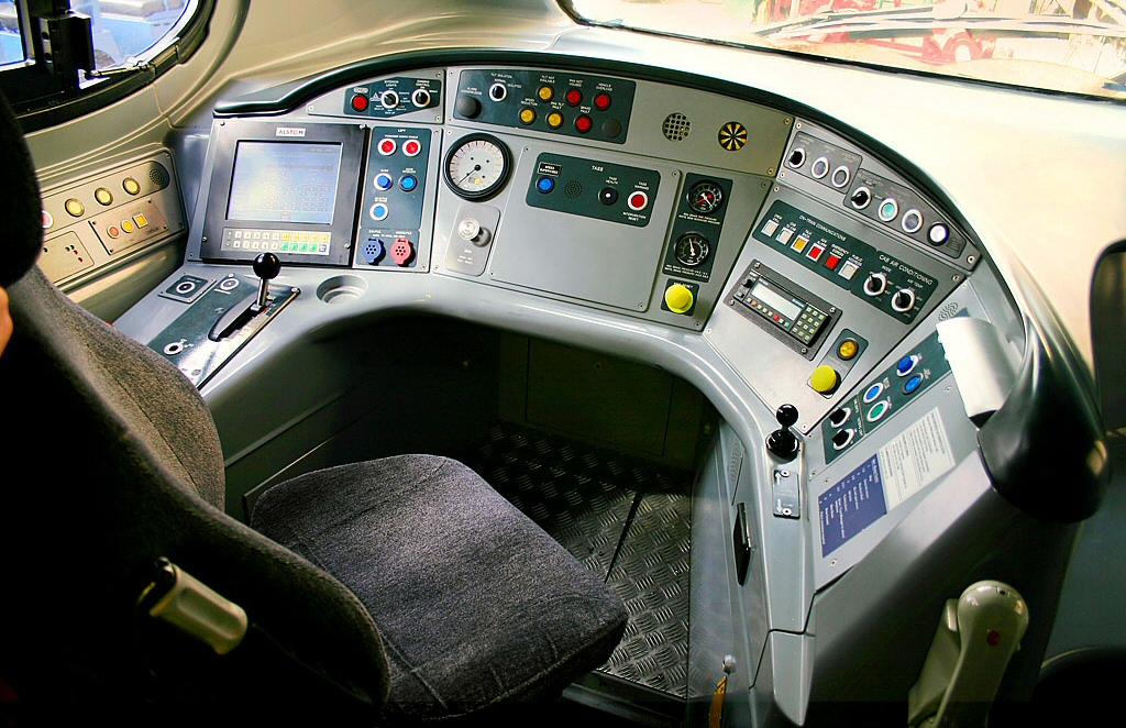 This image was taken by Martin J.Galloway. Donated from the British Photo Encyclopedia Dotonegroup : talk. Virgin Trains British Rail Class 390 012, Pendolino cab interior. Platform 1 Glasgow Central Station, Scotland June 2005.